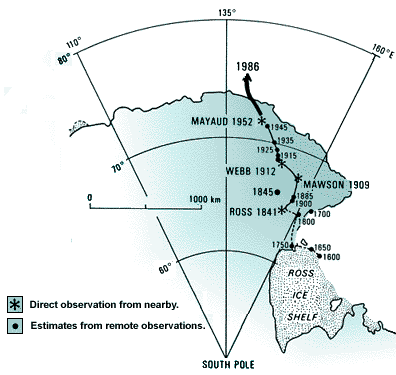 Locations of Magnetic South Pole, or dip pole, over time. Comparison of direct observations with model predictions.